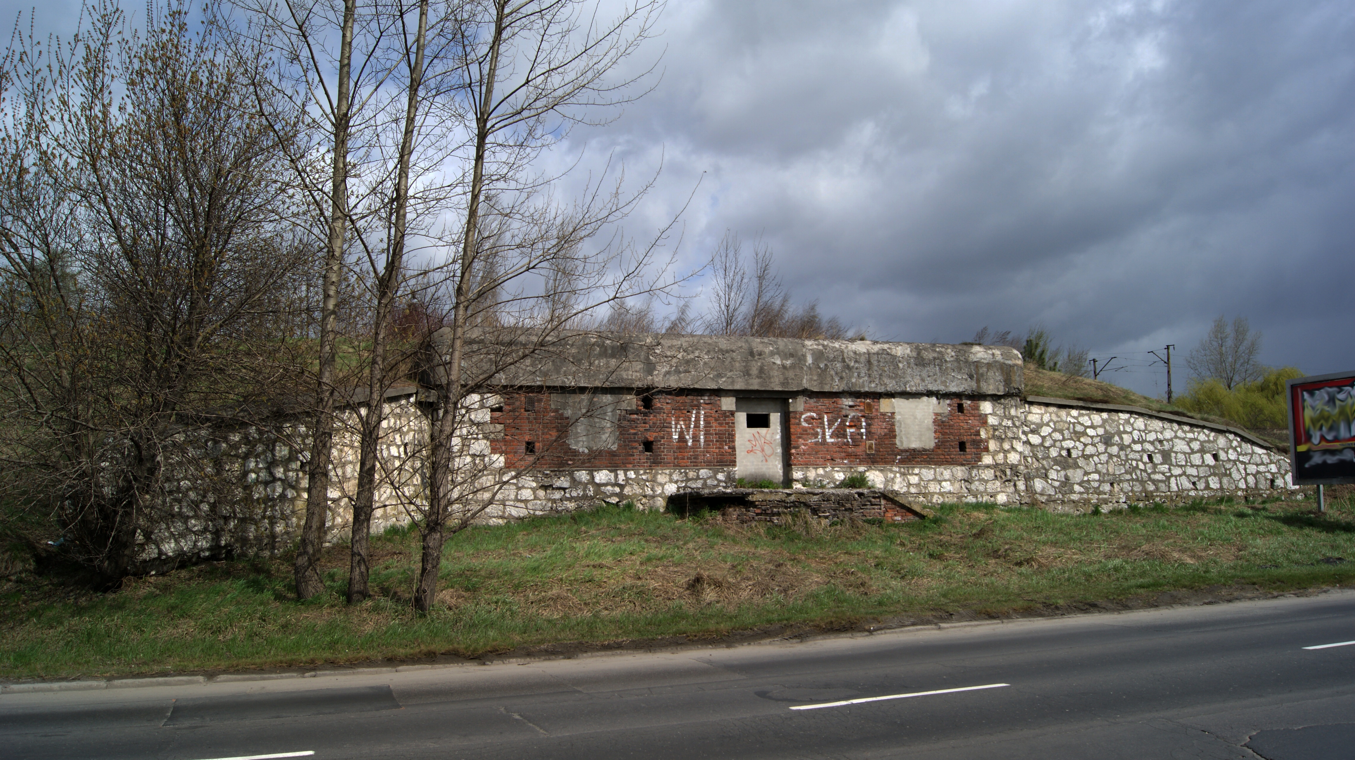 I WW, Austro-Hungarian fortifications-Krakow Fortress, ammunition shelter Dlubnia, Lowinskiego street, Nowa Huta,Krakow,Poland